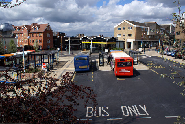 Warwick's new bus depot The town's refurbished bus depot taken from the garden of Lord Leycester Hospital.